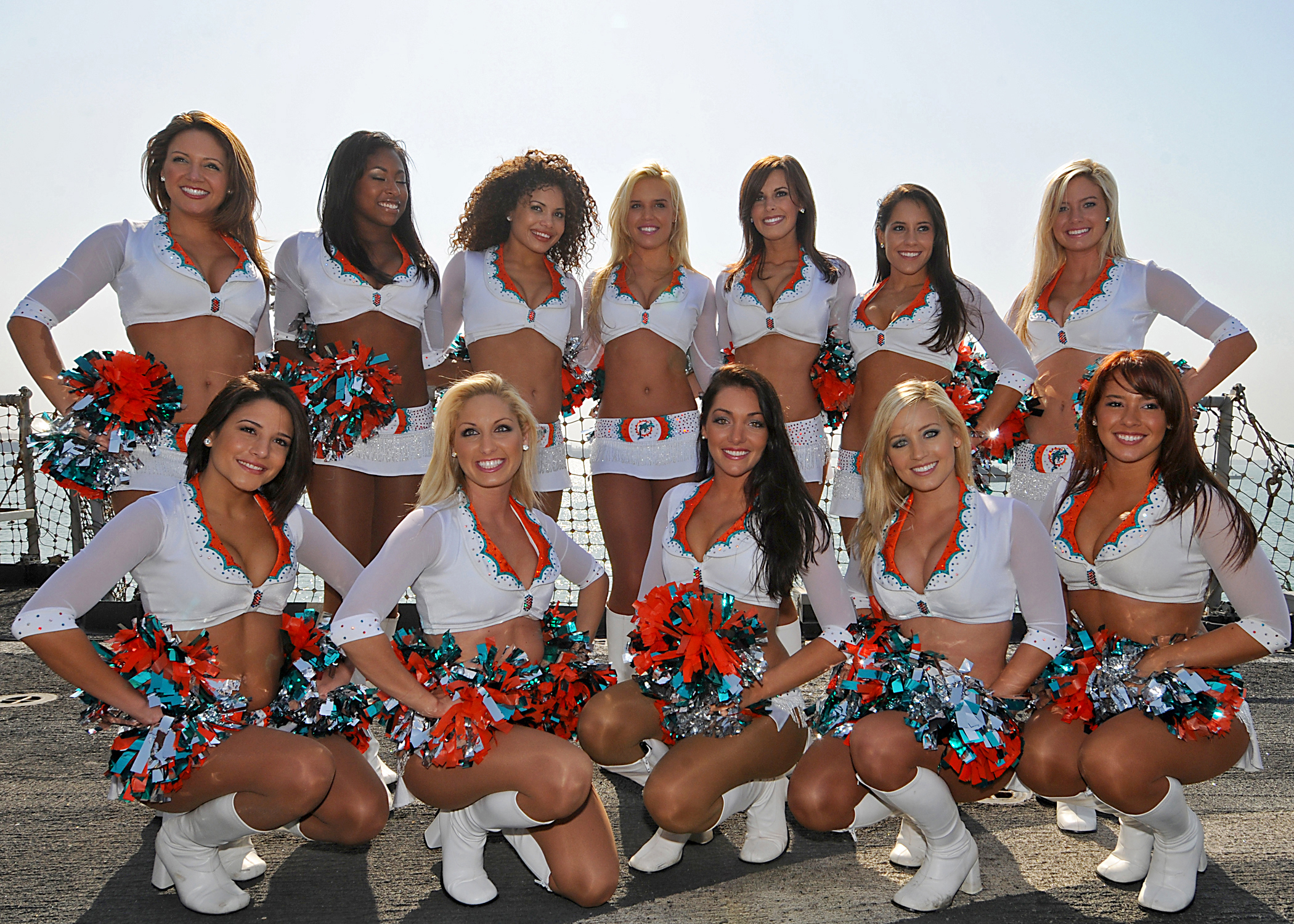 BAHRAIN (Jan. 21, 2009) The Miami Dolphins Cheerleaders pose for a photo aboard the guided-missile cruiser USS Vella Gulf (CG 72). Vella Gulf is deployed as part of the Iwo Jima Expeditionary Strike Group supporting maritime security operations in the U.S. 5th Fleet area of responsibility.